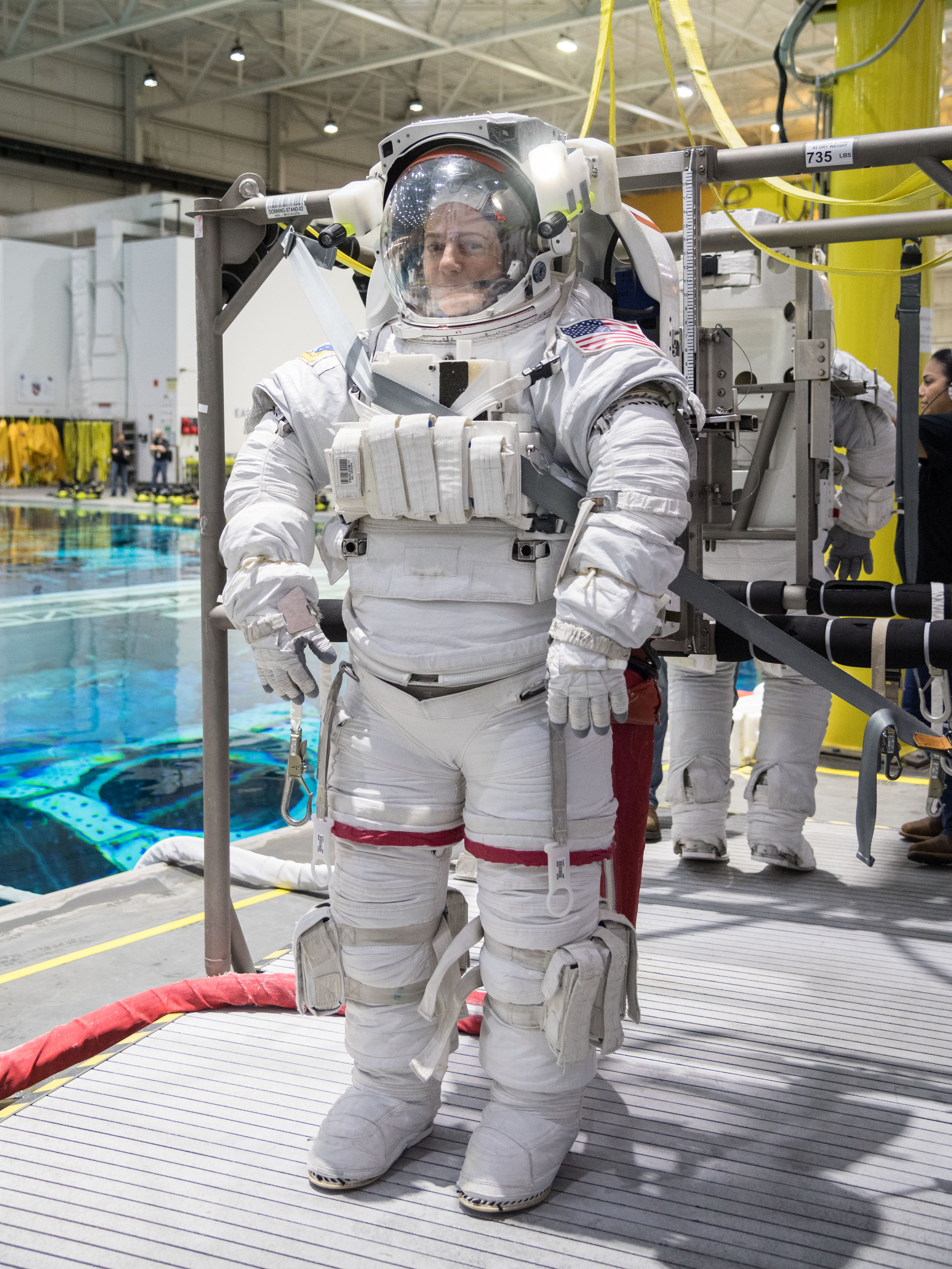 Astronaut Jessica Meir prepares to be submerged in NASA's 6.2 million gallon Neutral Buoyancy Laboratory for spacewalk training.